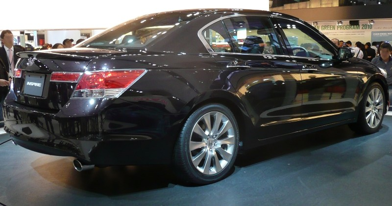 Honda Inspire rear.